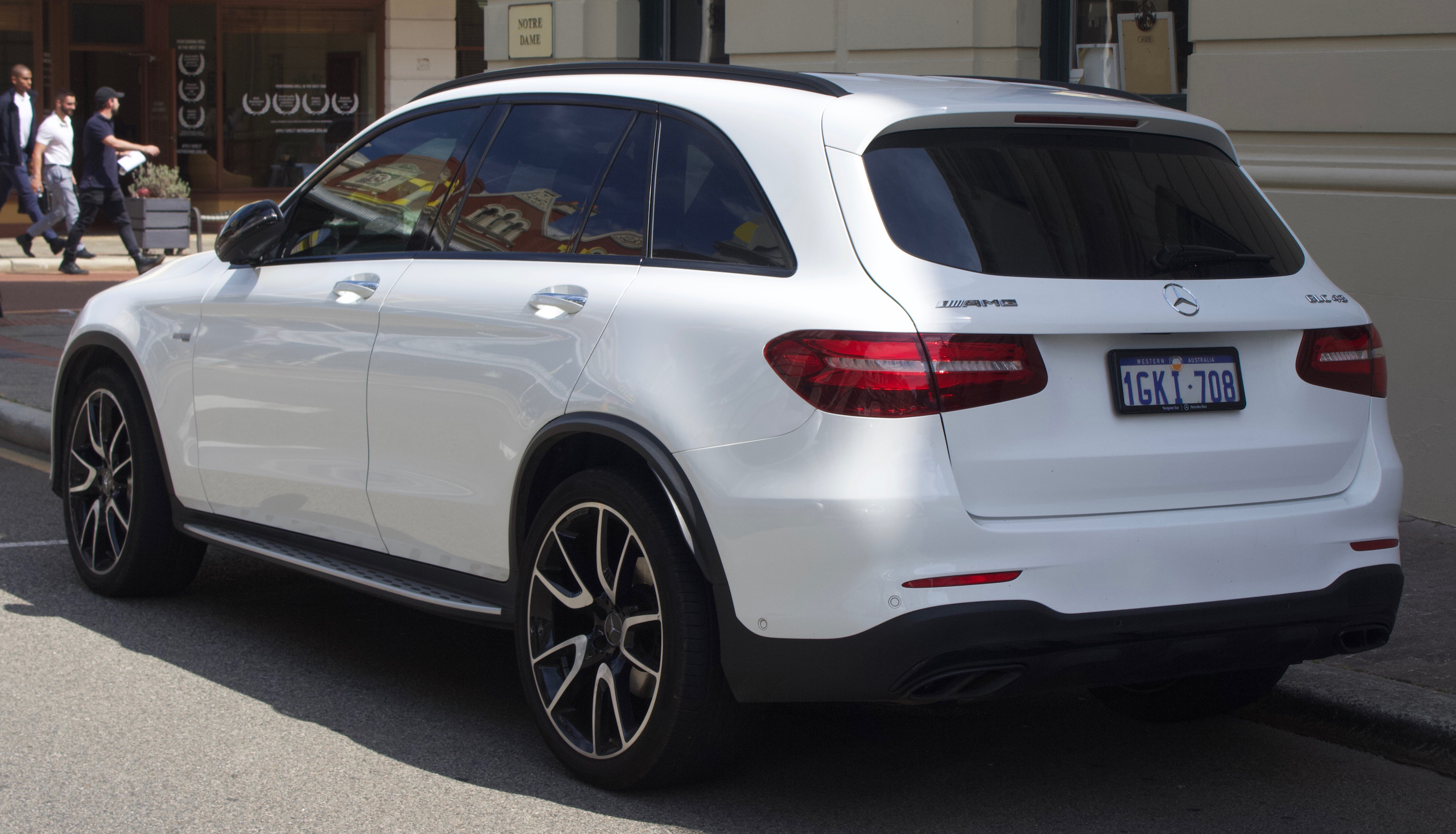 2017 Mercedes-Benz GLC 43 AMG (X 253) 4MATIC wagon. Photographed in Fremantle, Western Australia, Australia.